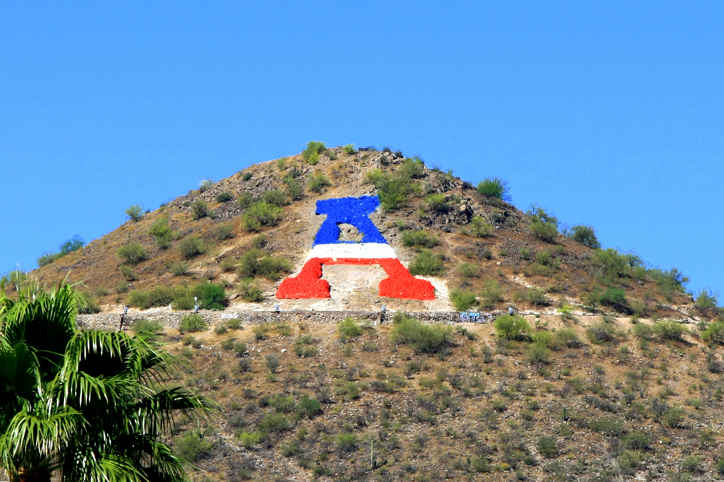 Sentinel Peak in Tuscon Arizona also known as "A" Mountain